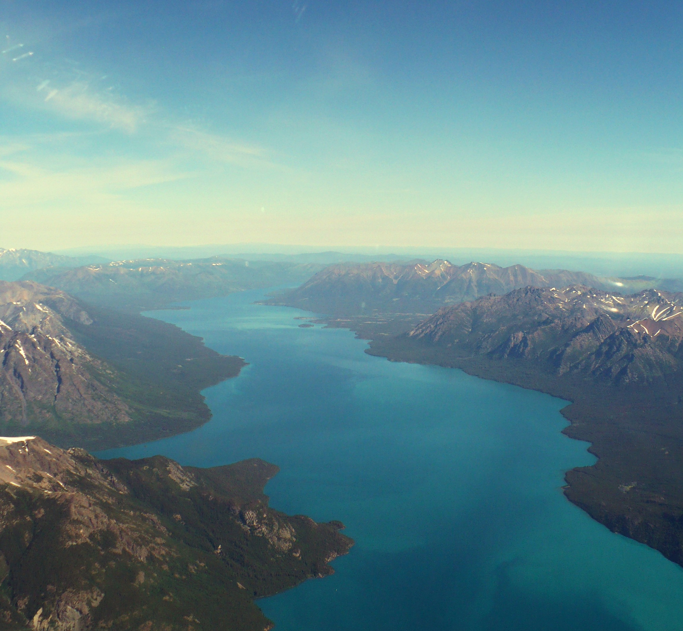 Chilko Lake, facing North.